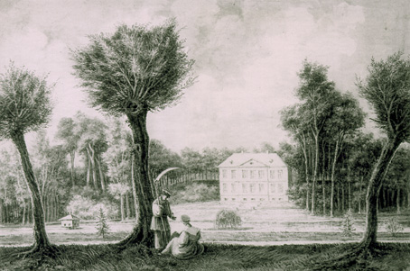 A historic representation of the Chateau Malou in Woluwe-St-Lambert, Brussels